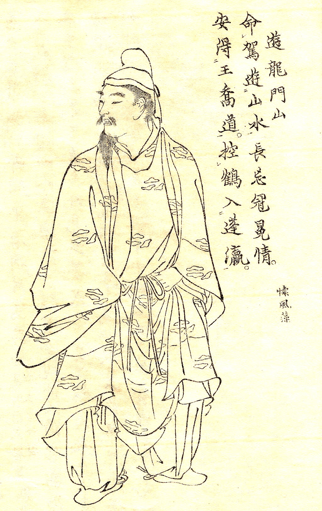 Kadono no Okimi（葛野王）was a member of the Imperial family during the Asuka and Nara periods..This picture was drawn by Kikuchi Yosai（菊池容斎） who was a painter in Japan.